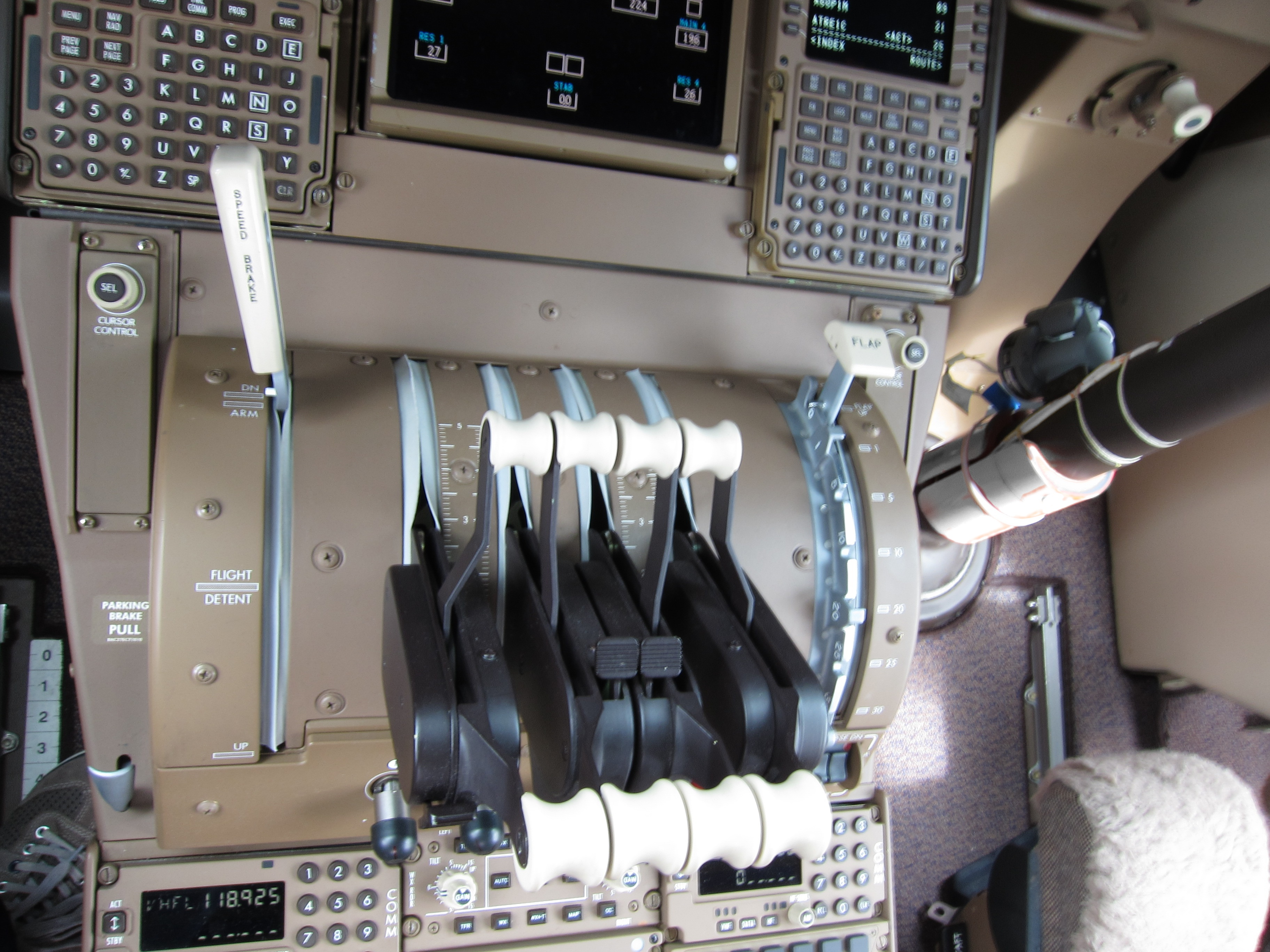 A pilot’s view of the thrust levers aboard the prototype of the Boeing 747-8I on display at the Paris Air Show 2011